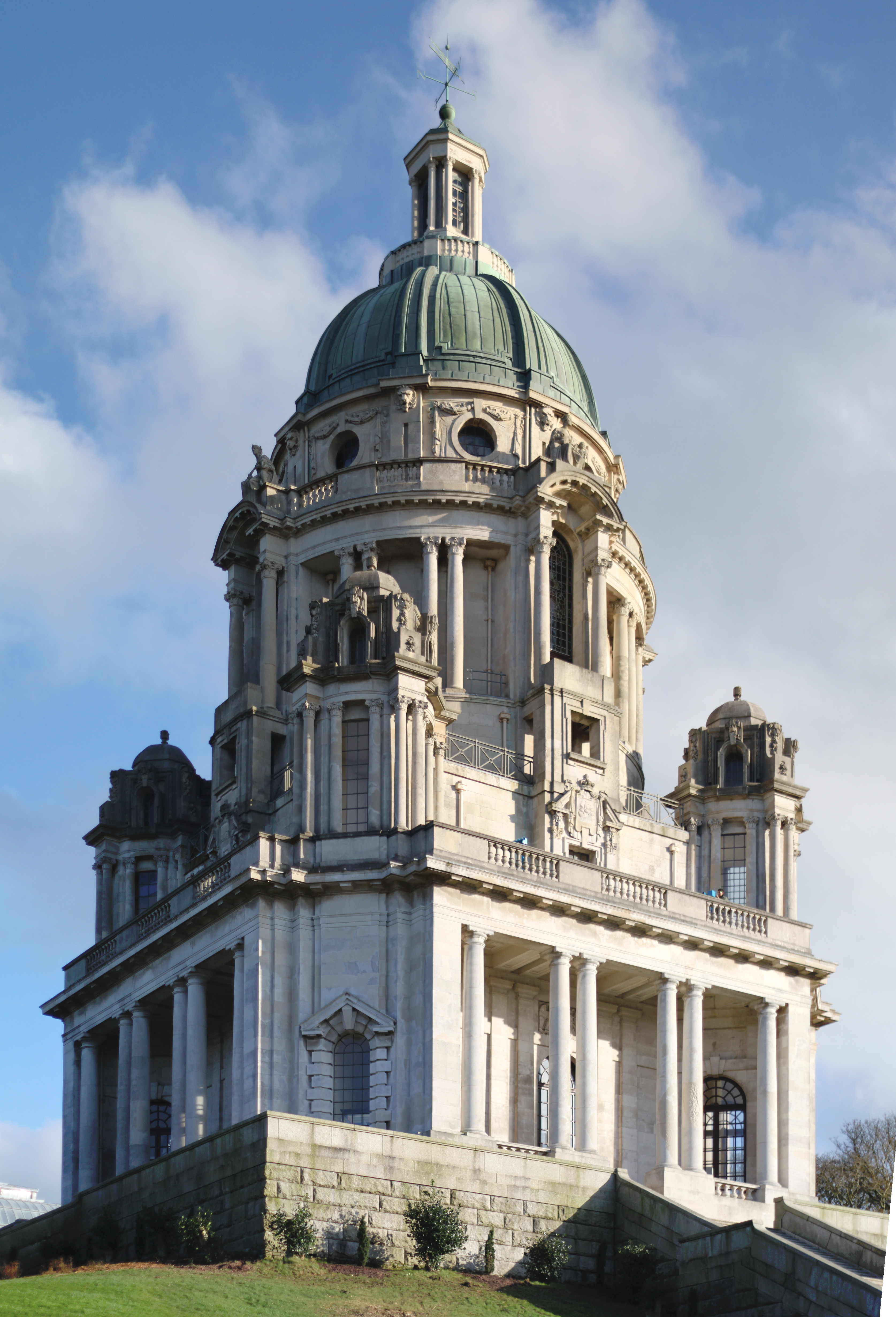 The Ashton Memorial in Lancaster